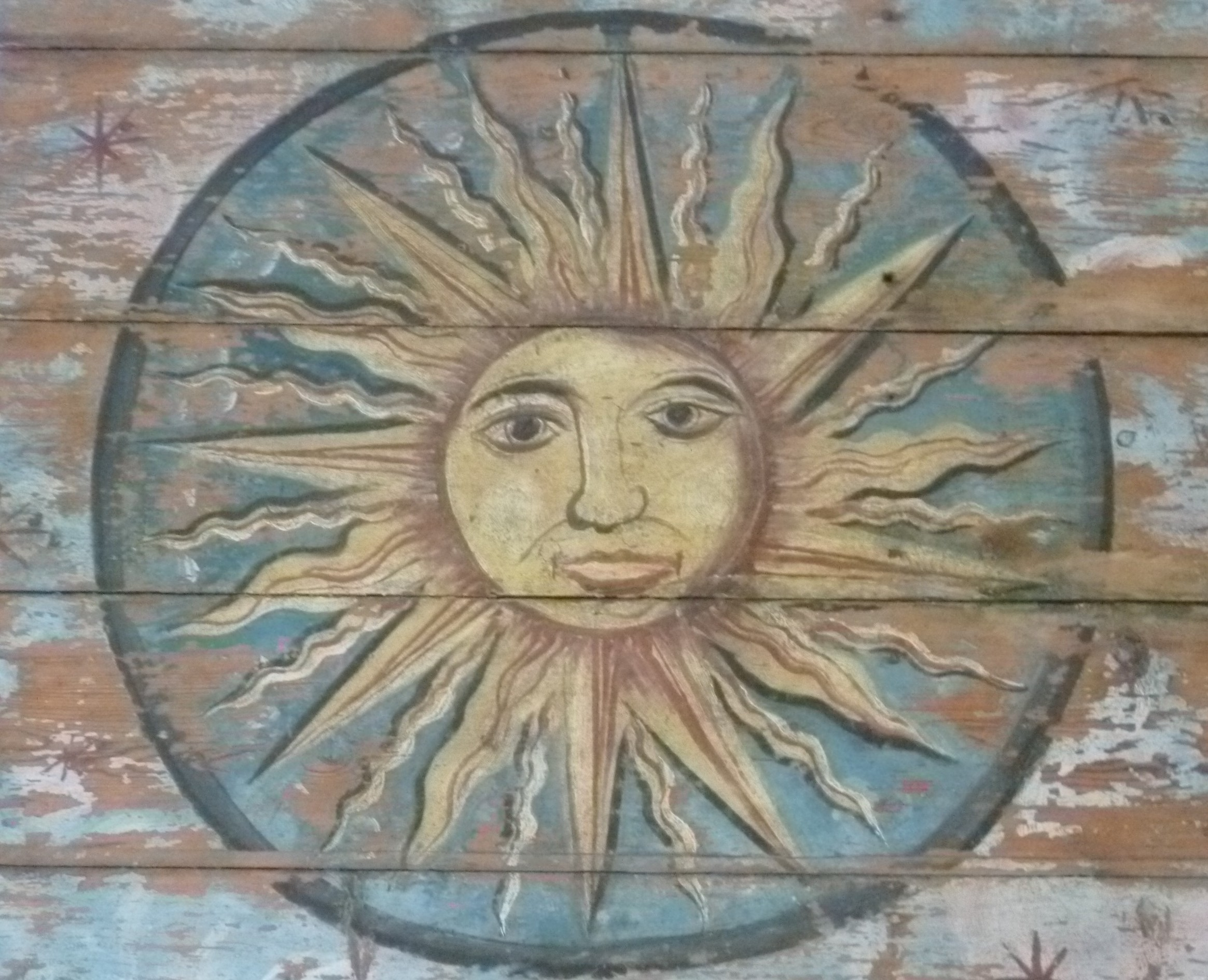 The Sun, from the ceiling of the Golden Cross Tavern, Linlithgow, c.1700. It can be seen in the town's Annet House Museum.